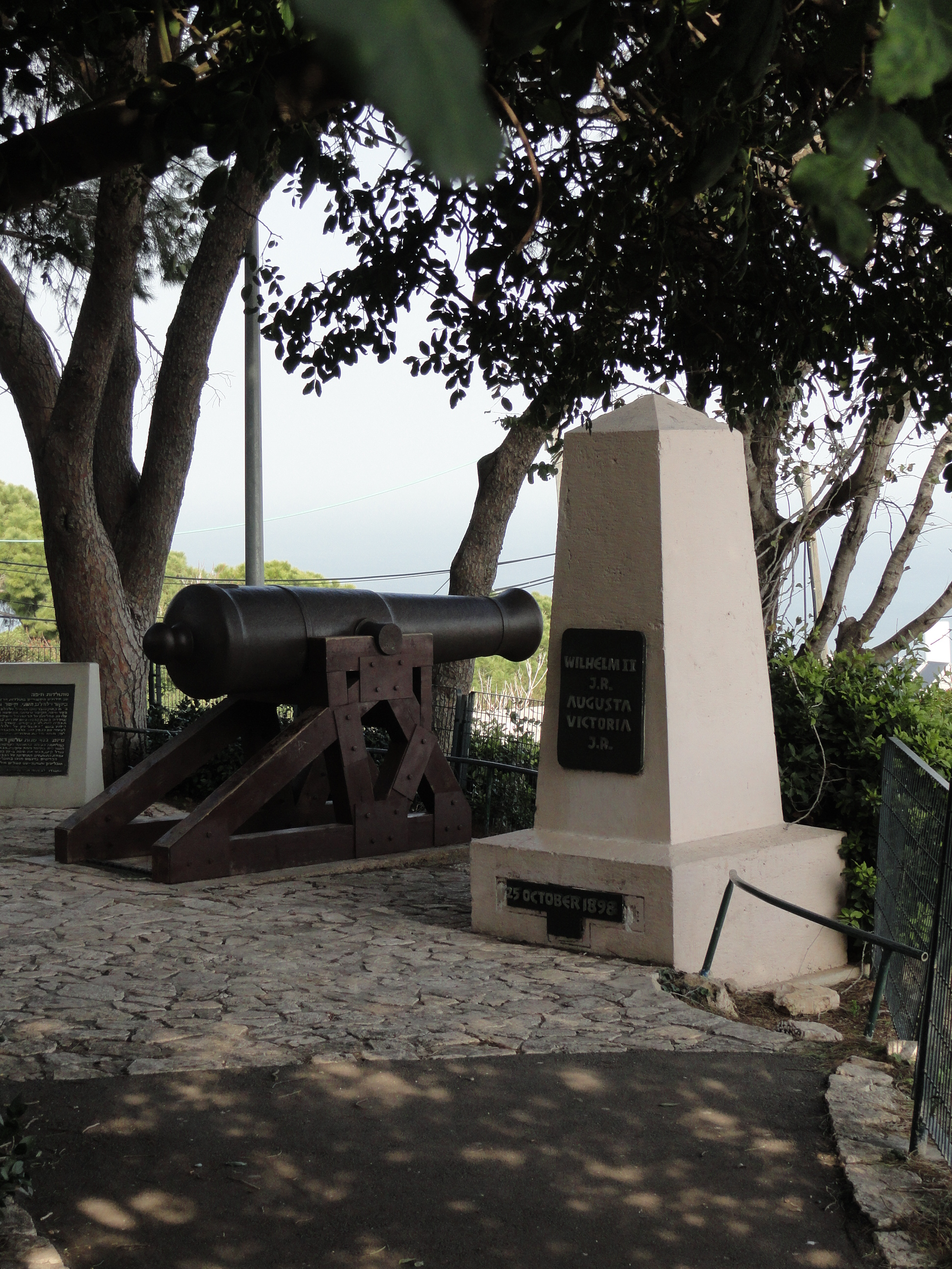 Yefe Nof garden: memorial for the Kayser Wilhem II visit and memorial for the capture à Haifa and the liberation from the Turkish empire.